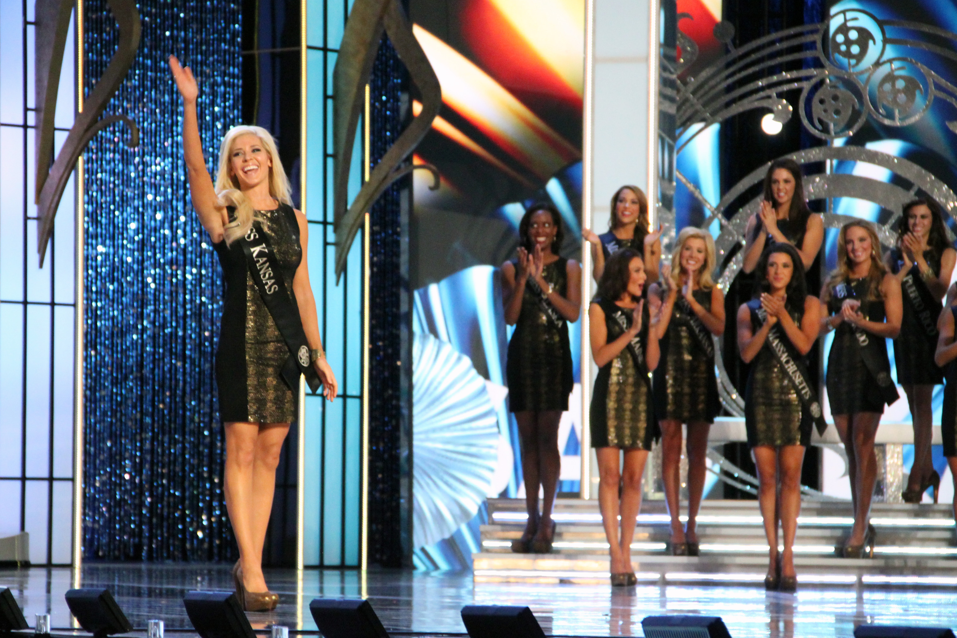 Sgt. Theresa Vail, Miss Kansas and a dental technician with Kansas National Guard's Medical Detachment, thanks the crowd and viewers at home shortly after being announced the first semifinalist into the top 15 by winning America's choice of the Miss America 2014 competition at Boardwalk Hall in Atlantic City, N.J., Sept. 15, 2013. Read more